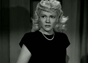 Claire Carleton in the 1946 film, A Close Call for Boston Blackie.